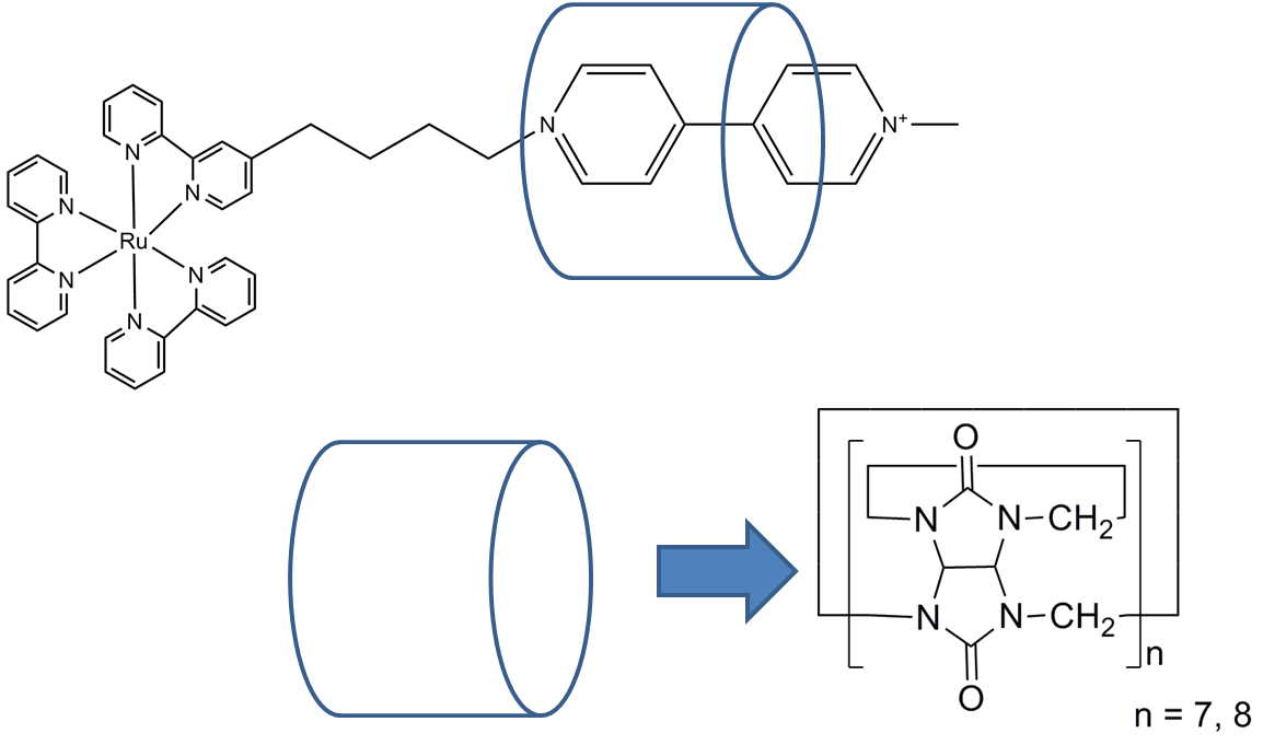 Complexation of viologen and RuBPY with Cucurbituril